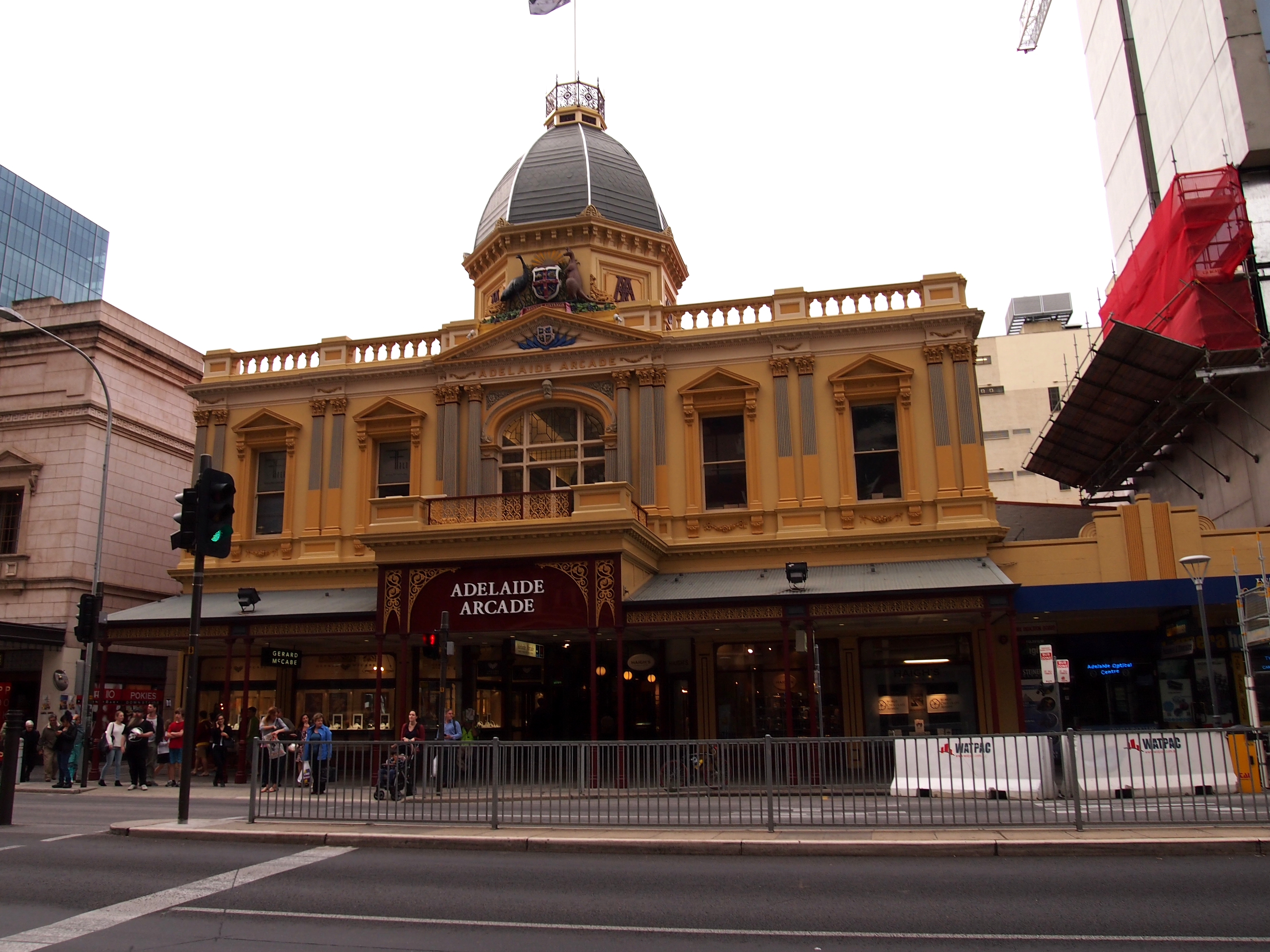 Adelaide Arcade, Grenfell Street entrance Original filename = P2211168.JPG. Slight adjustment to brightness and contrast.